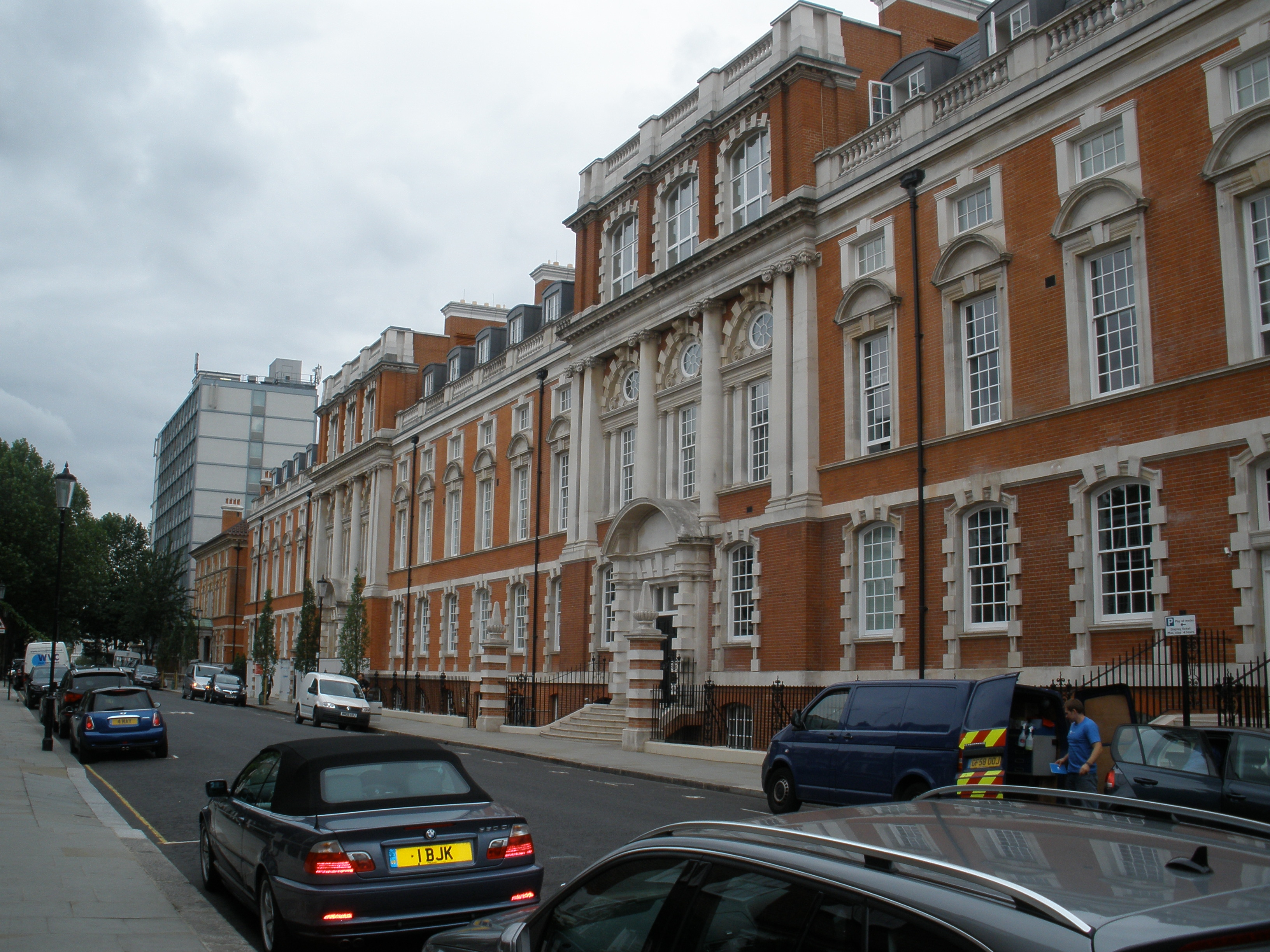 Main college building in Manresa Road, Lonson, SW3